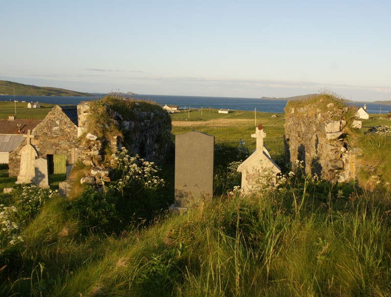 Cille Bharra, Barra, Outer Hebrides, Scotland - from the west